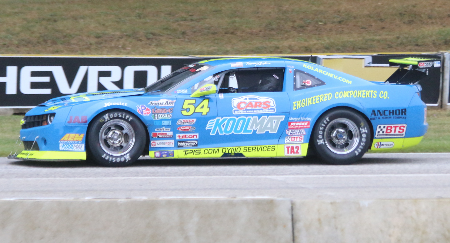 The TA2 car of Tommy Archer at Road America.